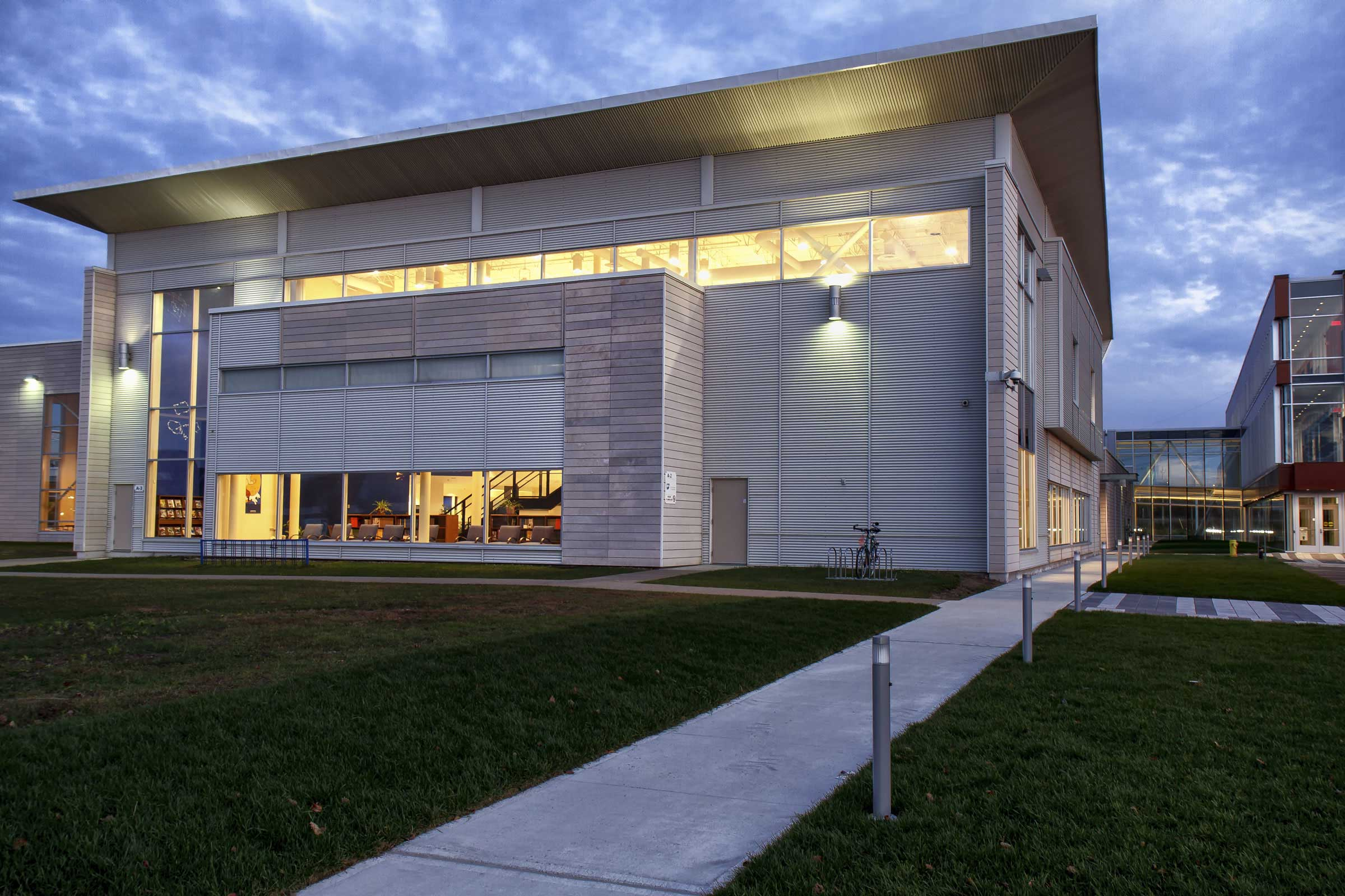 Cégep régional de Lanaudière à Terrebonne